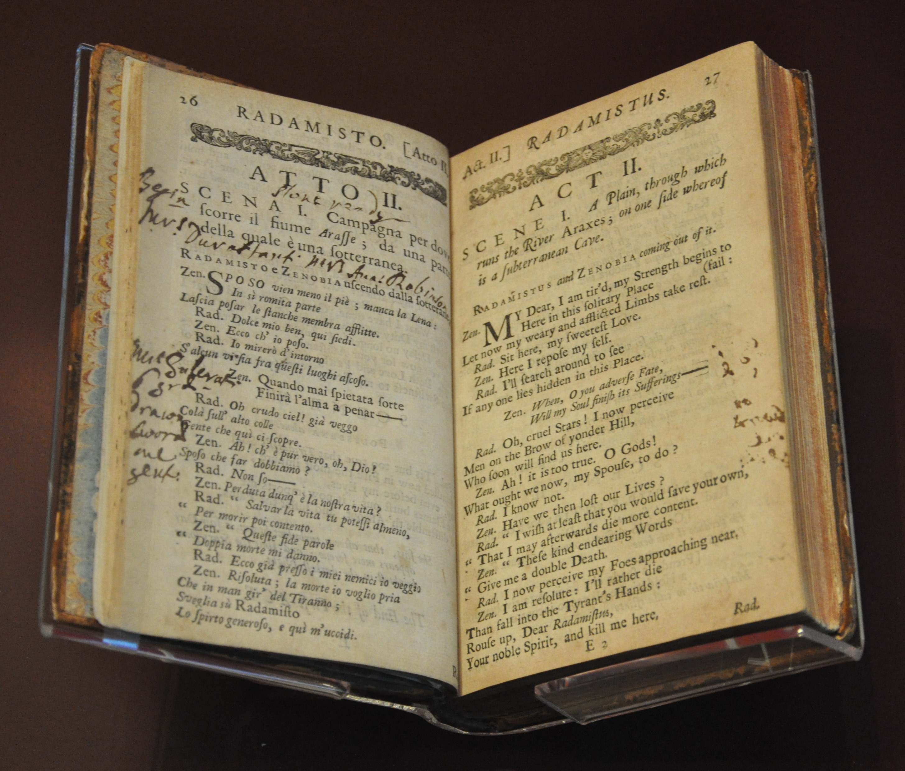 Prompt book for Handel's opera Radamisto, King's Theatre, London, 1720 Victoria and Albert Museum, London, Museum number: S.501-1985, Link